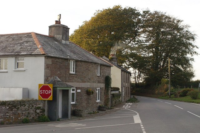 Congdon's Shop Can anyone identify which of these was the shop? The hamlet is on the western side of a crossroads formed by the B3257 from Bray Shop to Altarnun (the road going straight ahead here), and the B3254 from Liskeard (to the left here) to Launceston.